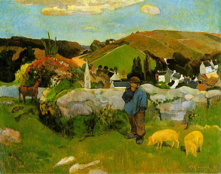 “The Swineherd, Brittany”. Size: 36 by 29 inches (93 by 74 cm). Los Angeles County Museum of Art.